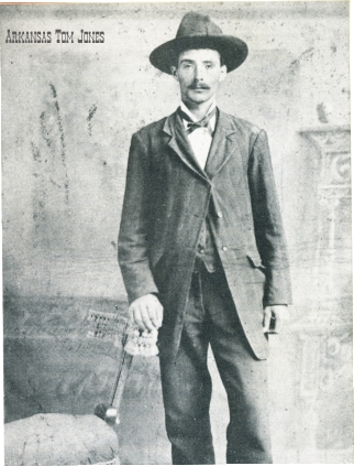 Picture of Roy Daugherty a.k.a. Arkansas Tom Jones